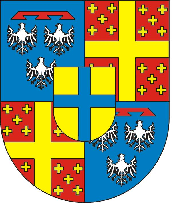 Coat of arms county leiningen-westerburg